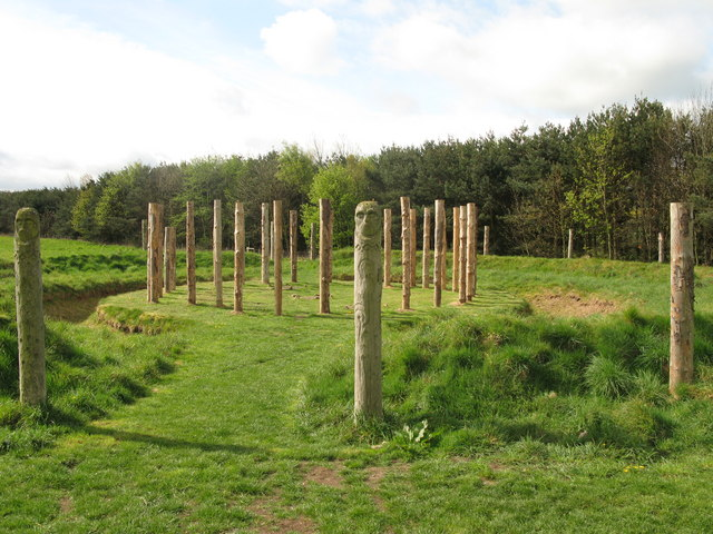 Maelmin - reconstruction of henge. Maelmin is a heritage site that tells the story of ancient Northumberland. The site was opened in 2000. There are three full-size archaeological reconstructions. This one is of the Milfield North henge monument. It was built in 2000, part of it by a team of volunteers living as Neolithic men and women and using only the tools of that period.